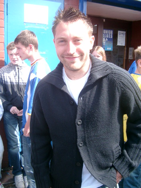 Stephen Dobbie outside Palmerston Park, Dumfries